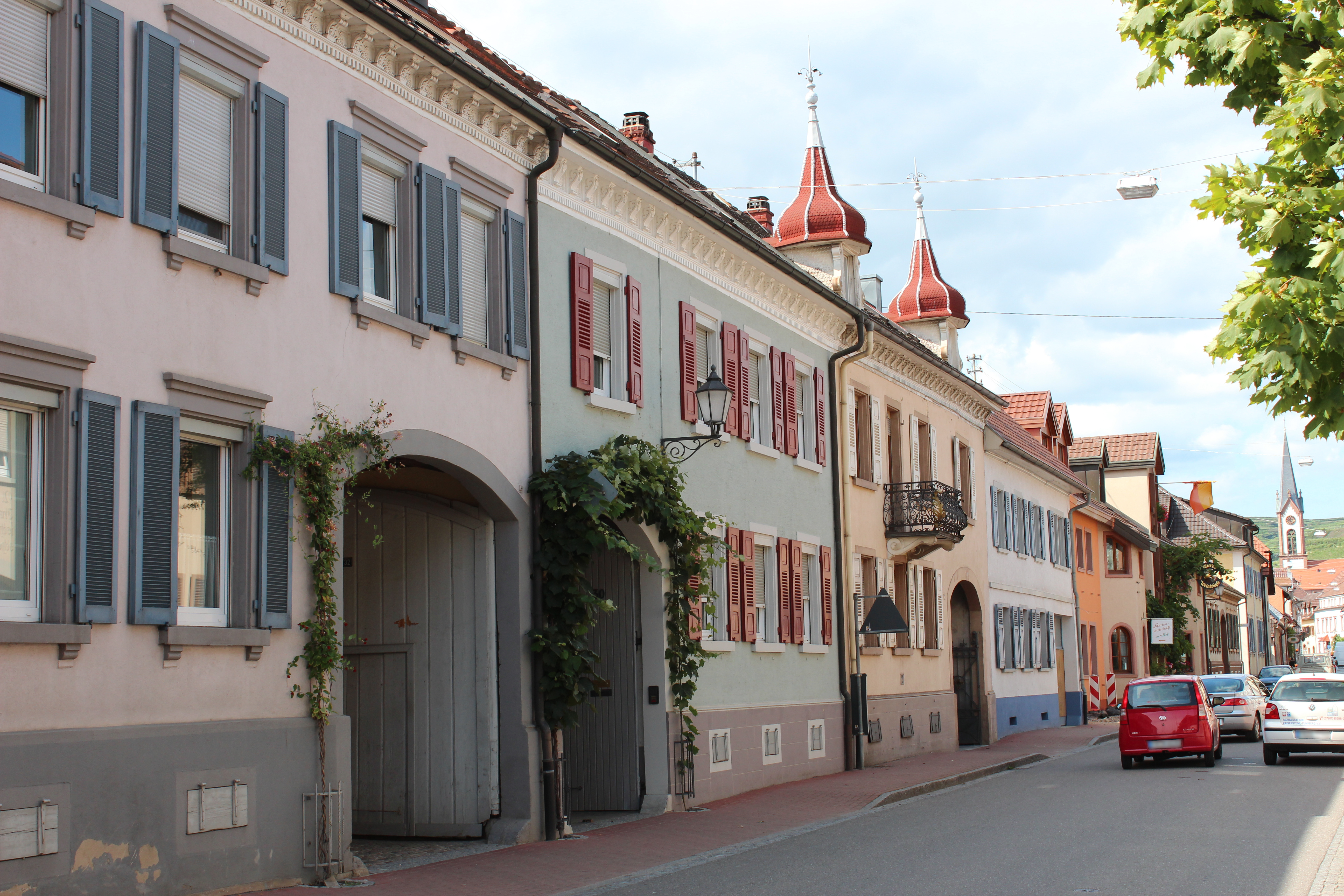 Street in Ihringen (Baden-Wuerttemberg, Germany) to the Evangelical Church